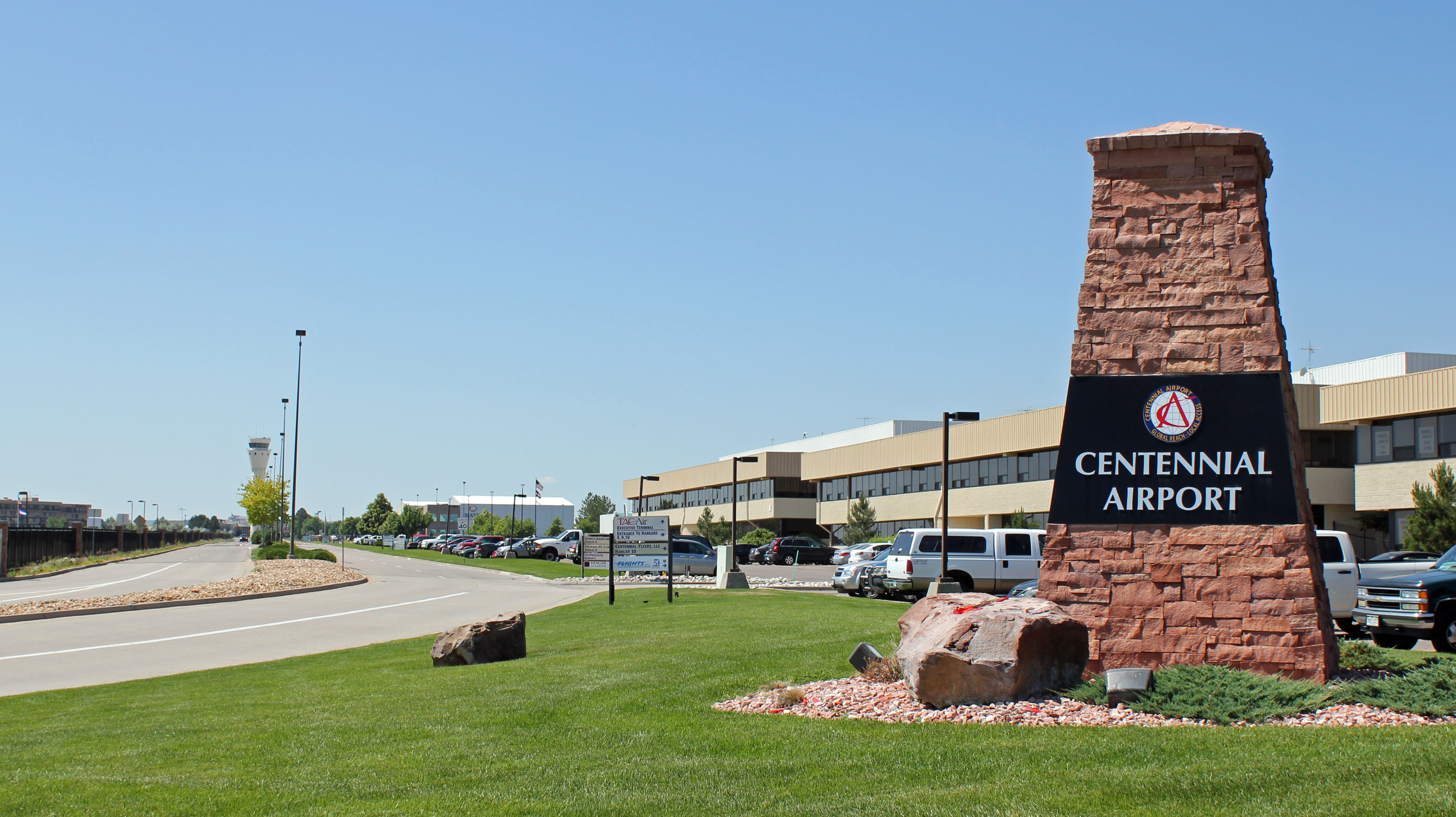 The entrance to Centennial Airport. The airport is located at 7800 South Peoria Street in the Dove Valley census-designated place in Arapahoe County, Colorado.